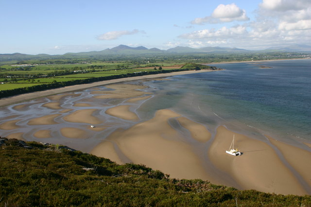 Llanbedrog beach from Mynydd Tir-Y-Cwmwd.